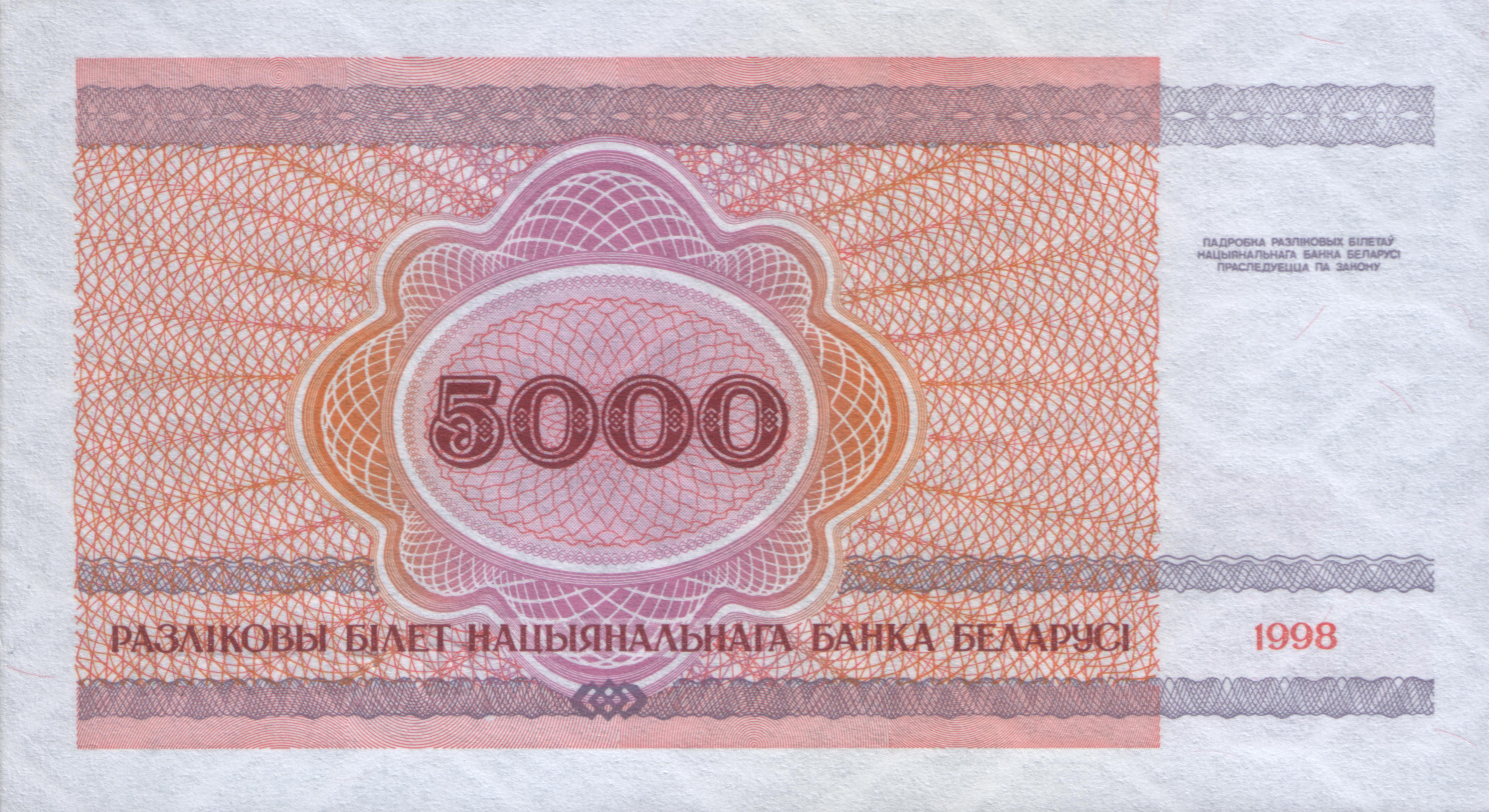 5000 roubles of Belarus (1998)